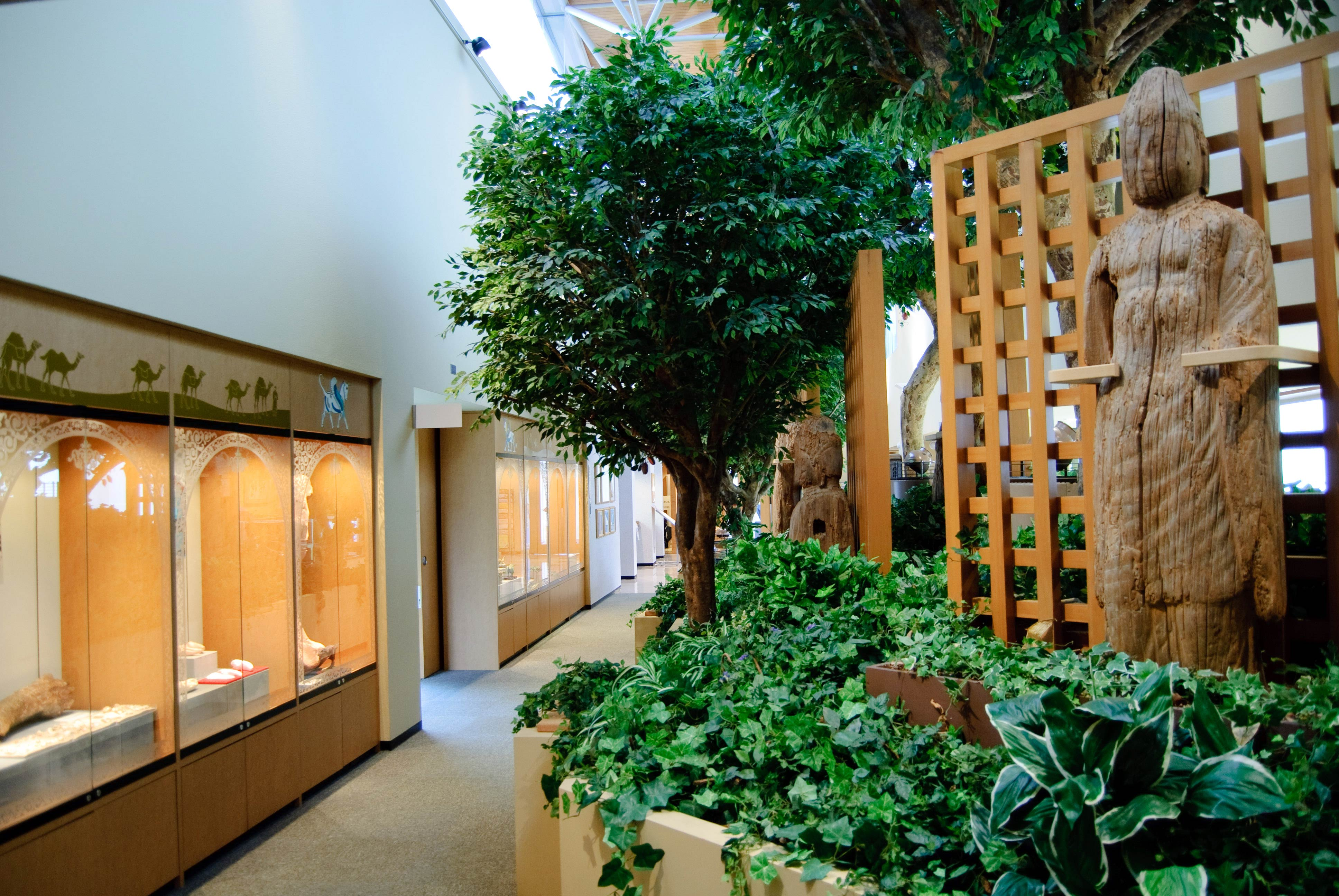 Japan Mongolia Fork Museum A building:Forest